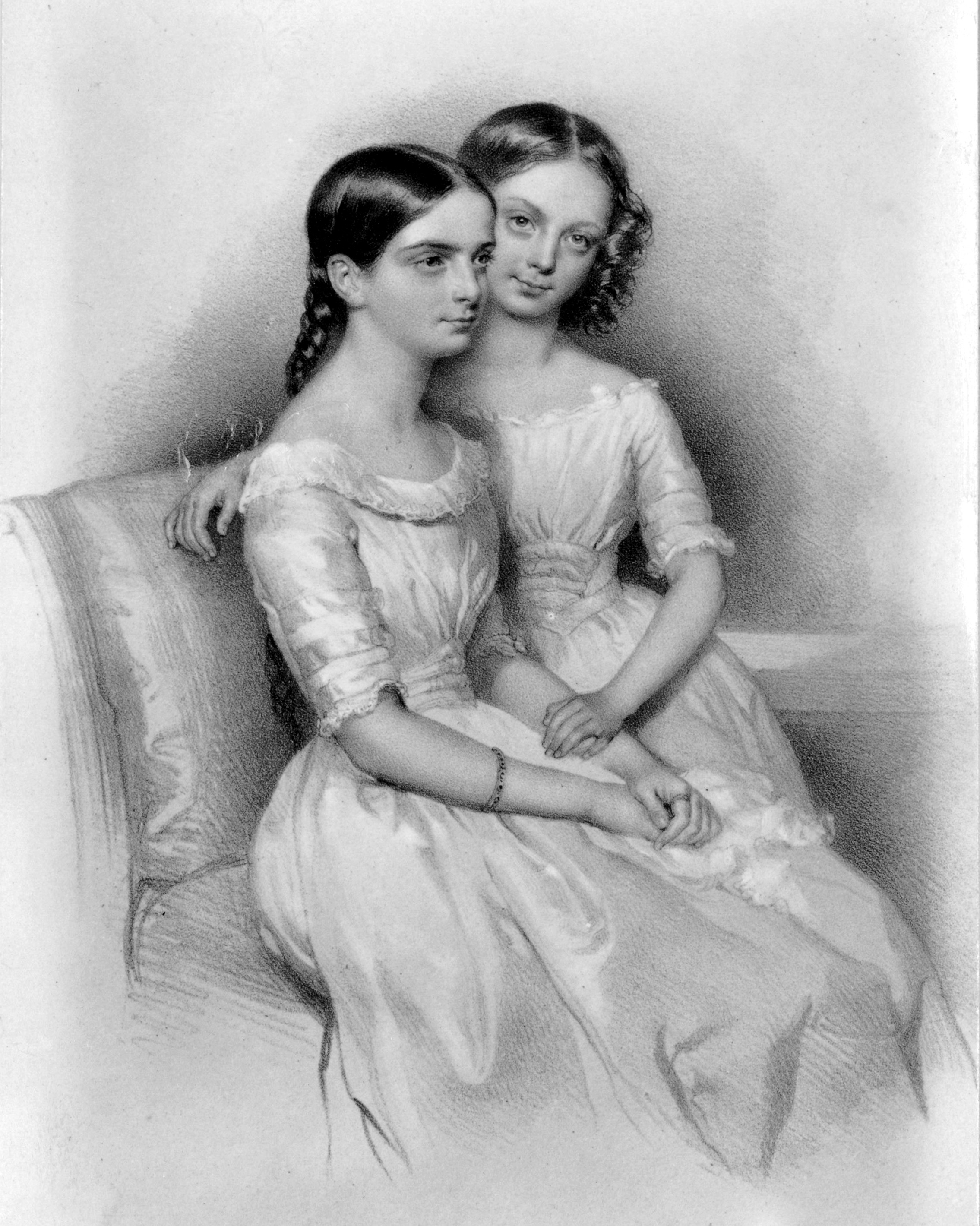 Italian violinist and composer Teresa Milanollo (1827-1904) with her sister Maria. Lithograph by Joseph Kriehuber (1800-1876) photographed by Charles Jacotin (18..-19..).